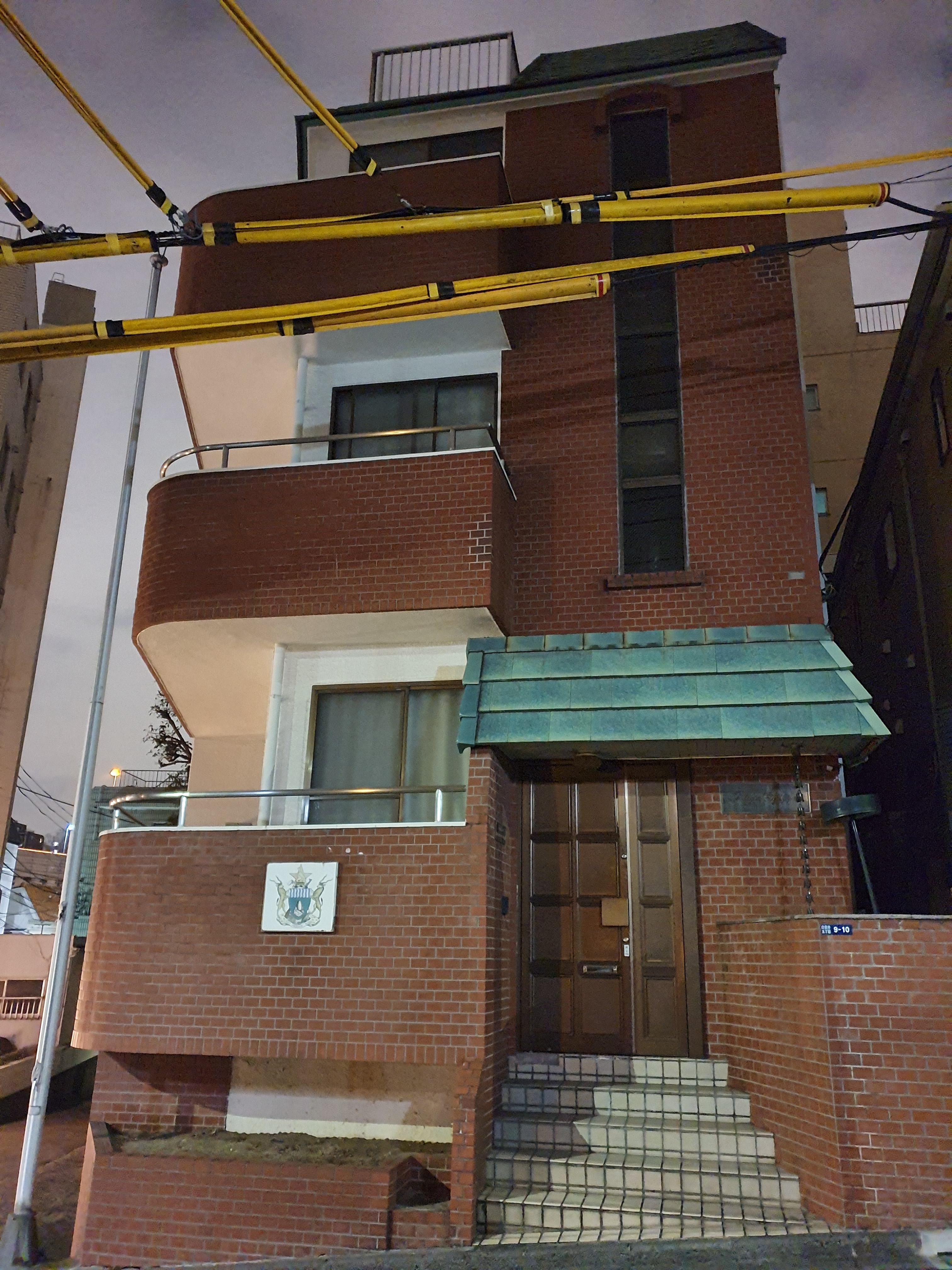 embassy